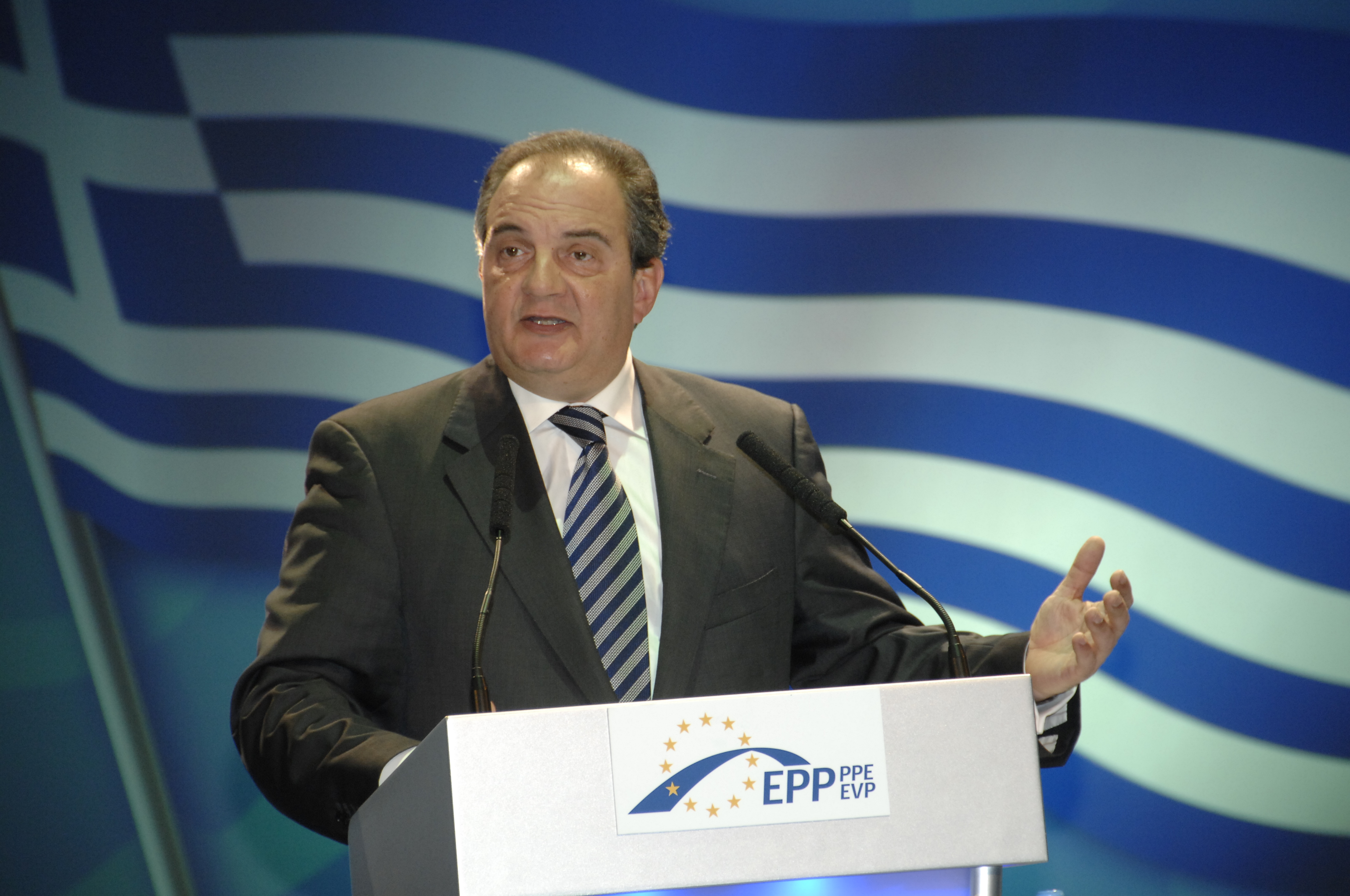 EPP Congress Warsaw